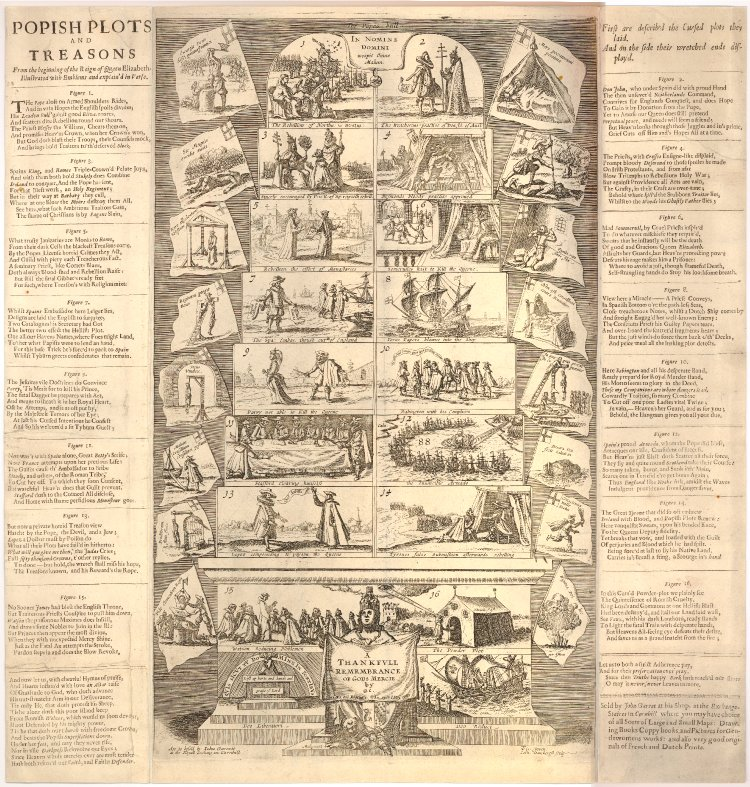 "Popish Plots and Treasons / Thankful Remembrance of God's Mercie by G.C.," broadside etching, by Cornelis Danckerts (print published by John Garrett). 567 mm x 540 mm. Courtesy of the British Museum, London.